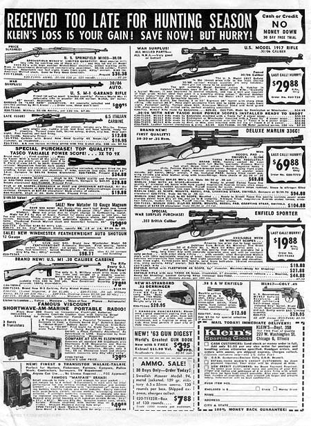 Full-page advertisement by Klein's Sporting Goods, of Chicago, in the February 1963 issue of American Rifleman magazine. The Warren Commission concluded that Lee Harvey Oswald purchased an Italian Carcano rifle and telescopic sight (left column, third from top) from this advertisement in March 1963, and used it to assassinate U.S. President John F. Kennedy in Dallas, Texas on November 22, 1963.